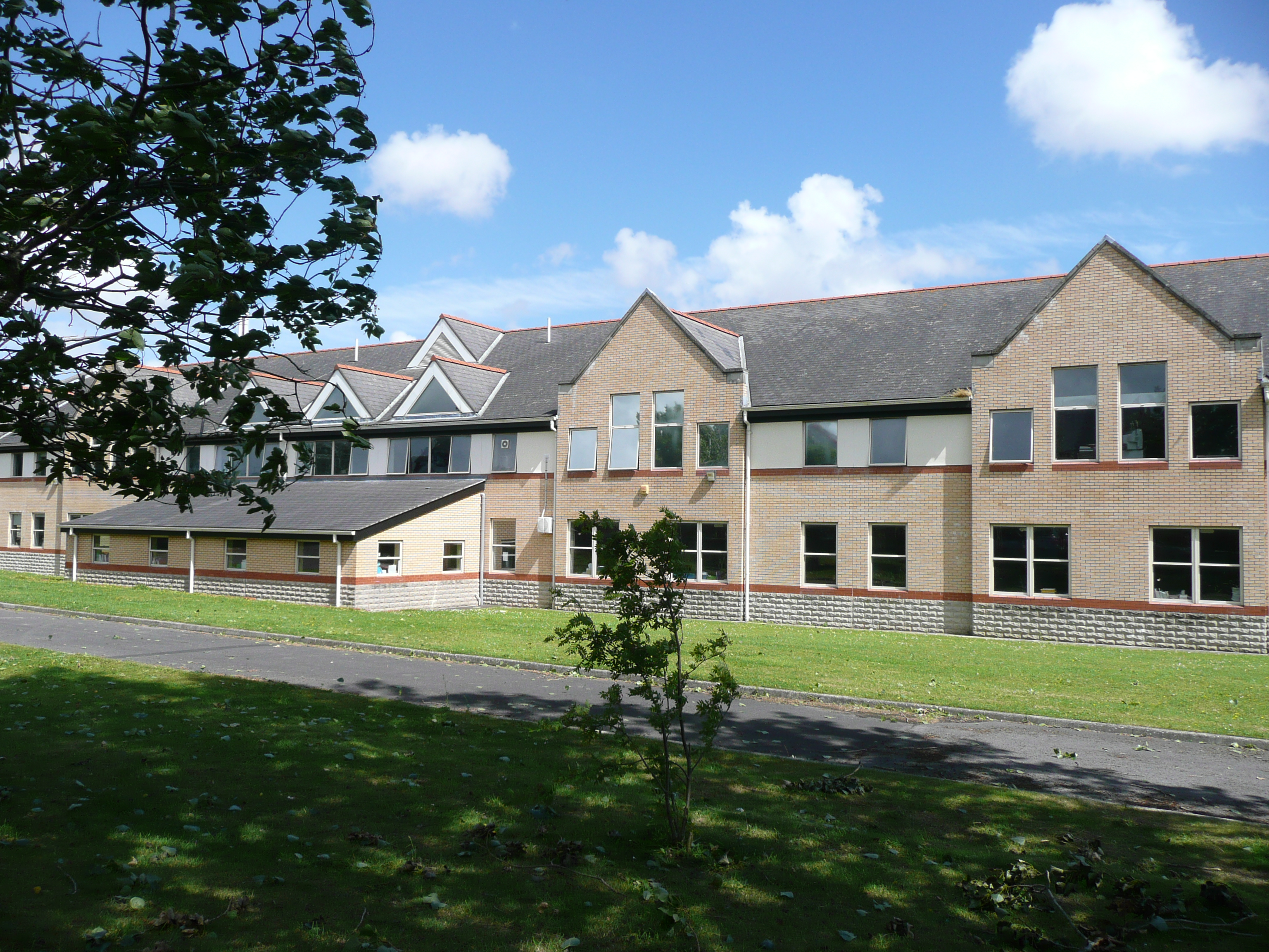 Stanwell School extension Penarth